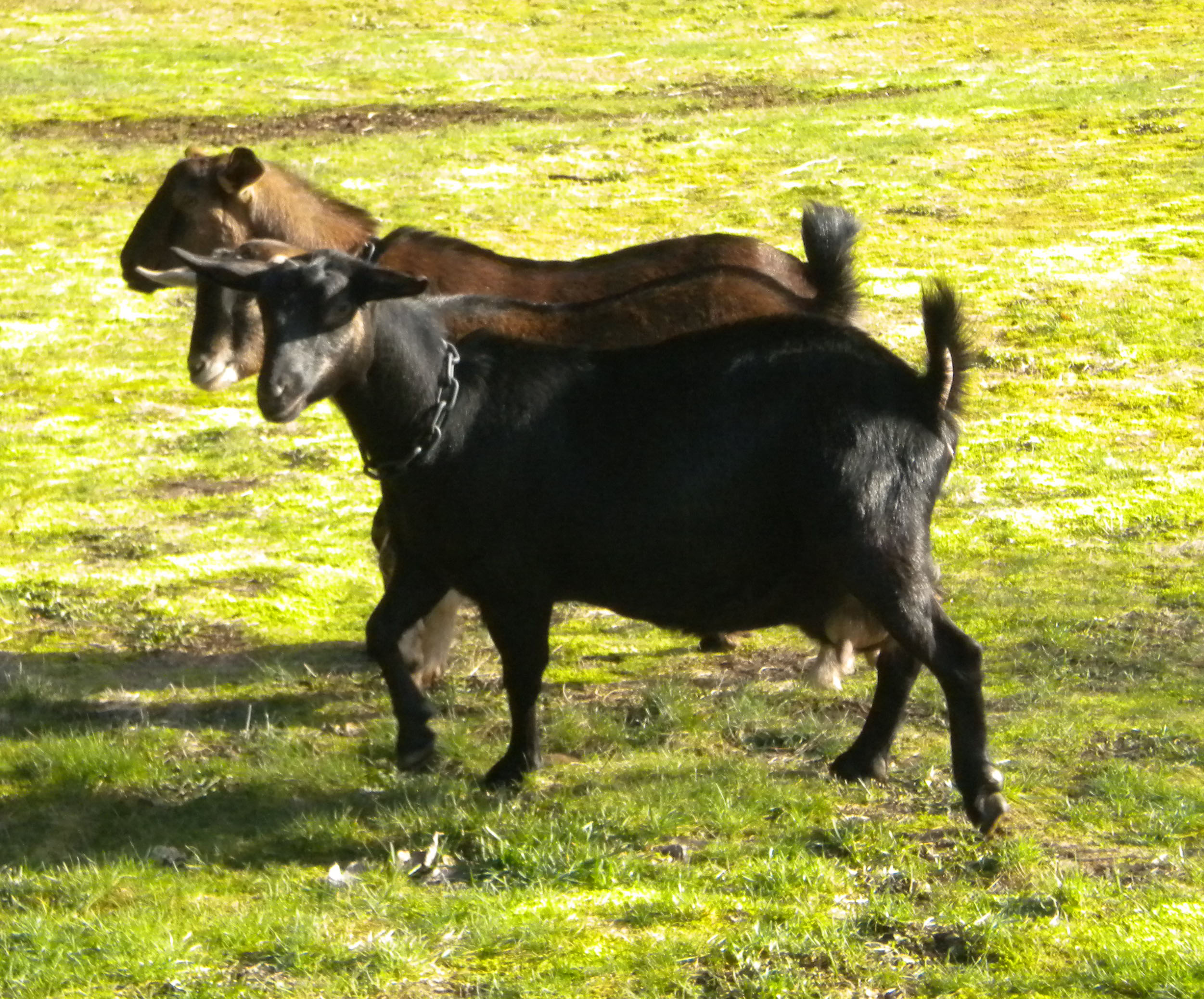 Picture of three Kinder goats running.